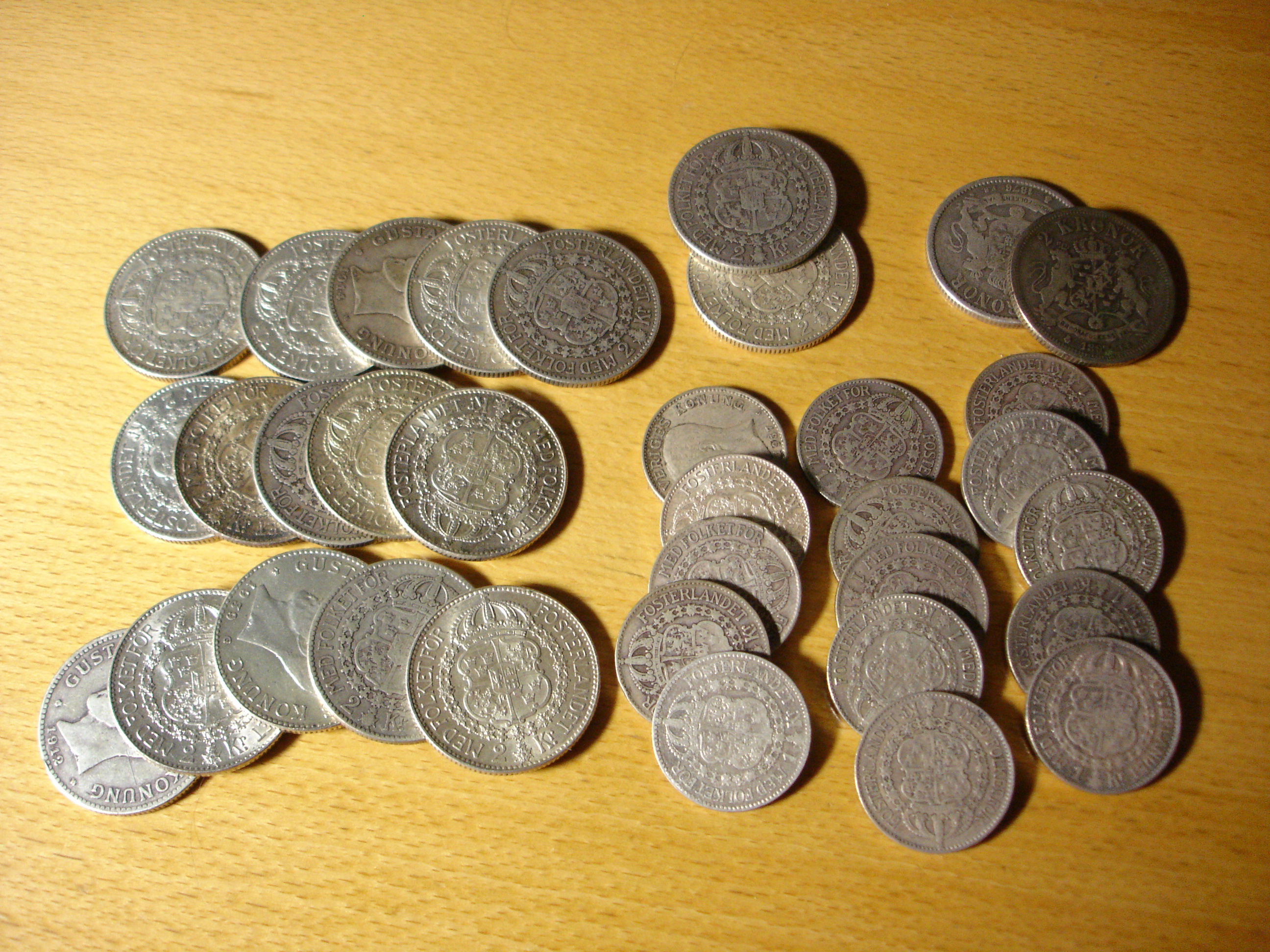 Swedish one- and two crown ("krona") coins with 80% silver content